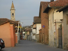 Street Casana